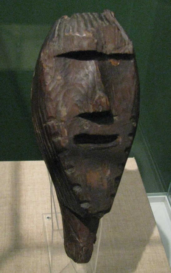 ancient wooden statue, 7000 BC